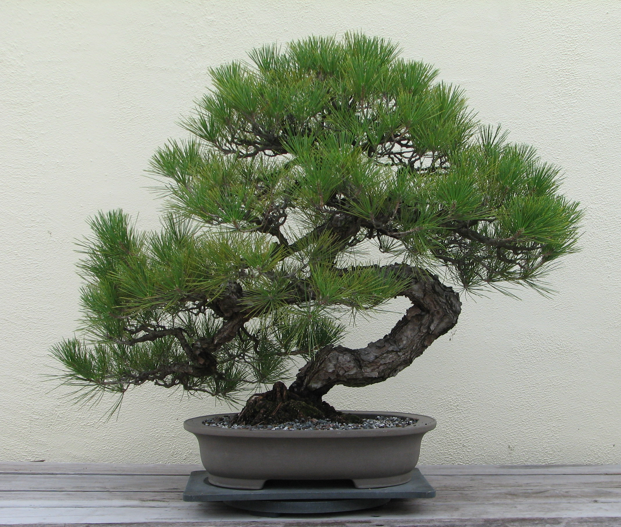 A Japanese Black Pine (Pinus thunbergii) bonsai on display at the National Bonsai & Penjing Museum at the United States National Arboretum. According to the tree's display placard, it has been in training since 1936. It was donated by Yee-sun Wu.